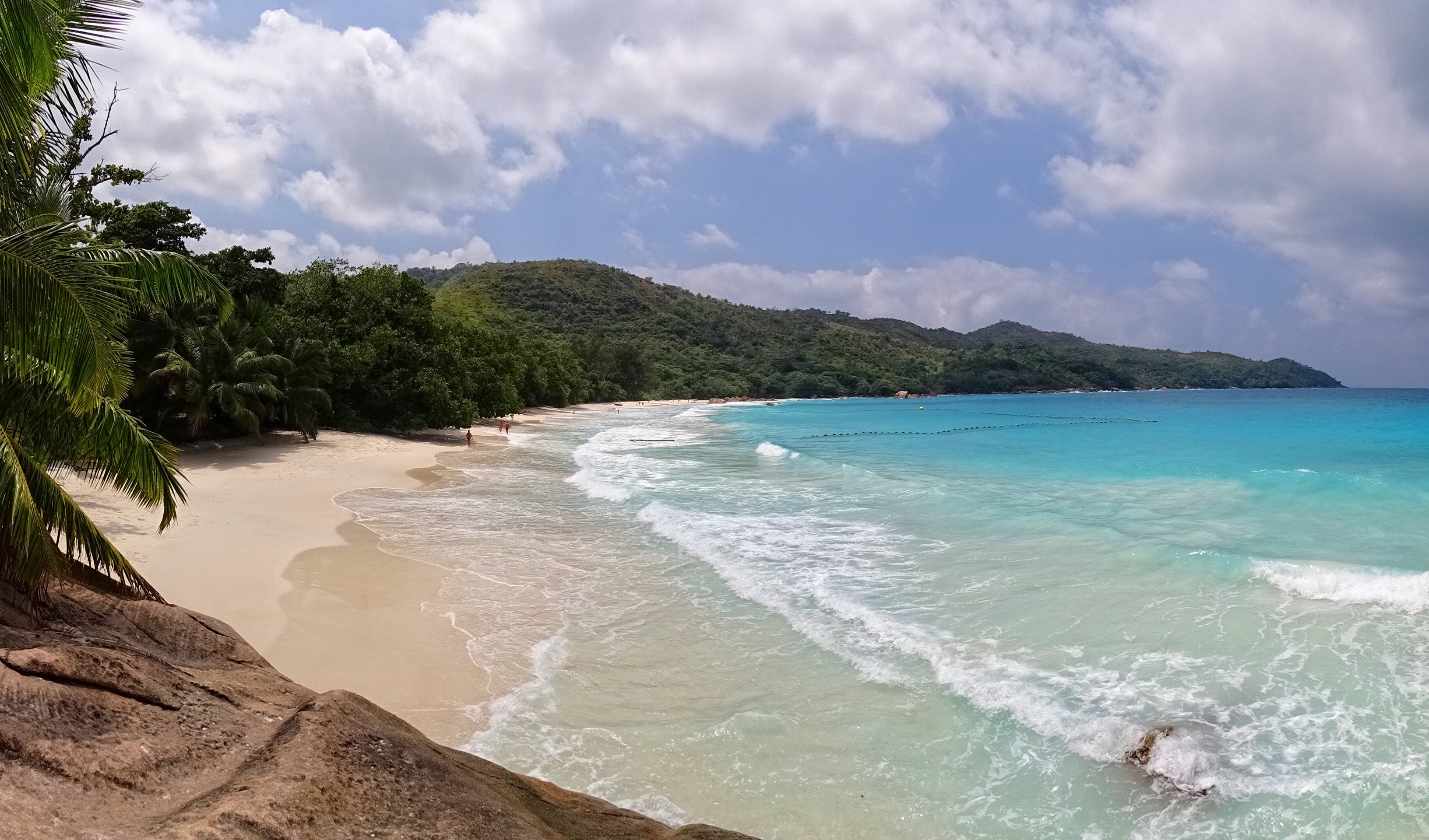 A view of the entire Anse Lazio on Praslin, Seychelles, seen from the northeastern end.